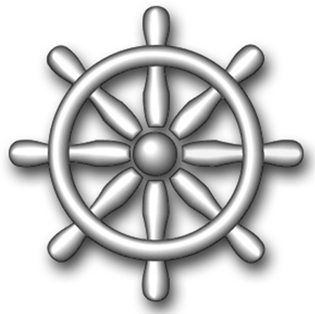 US Navy Quartermaster (QM). A ship's helm.